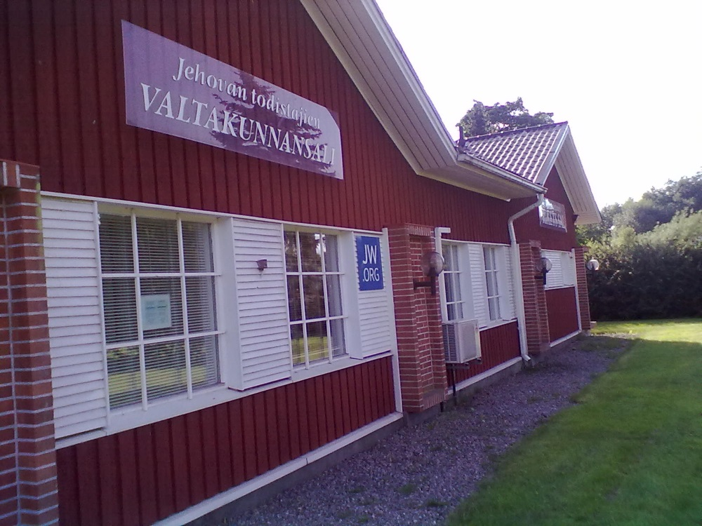 Kingdom Hall of the Jehovah's Witnesses in Karjaa, Finland